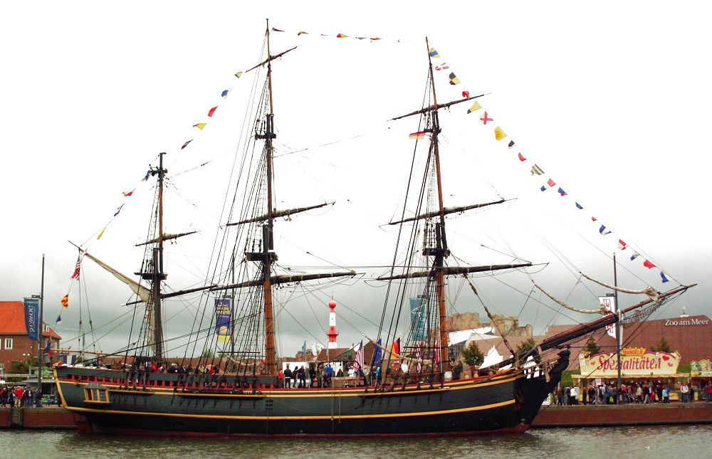 Bounty II on visit at Bremerhaven 2011